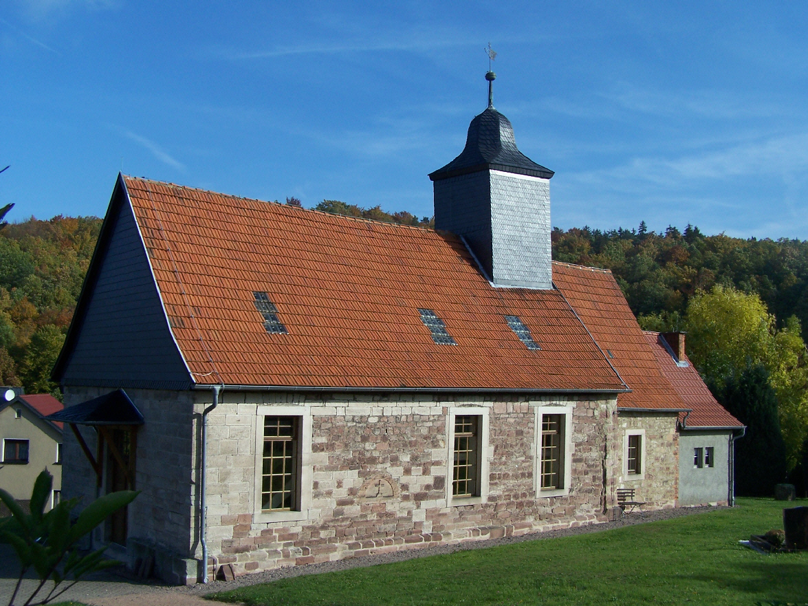 The church in Deubach village.